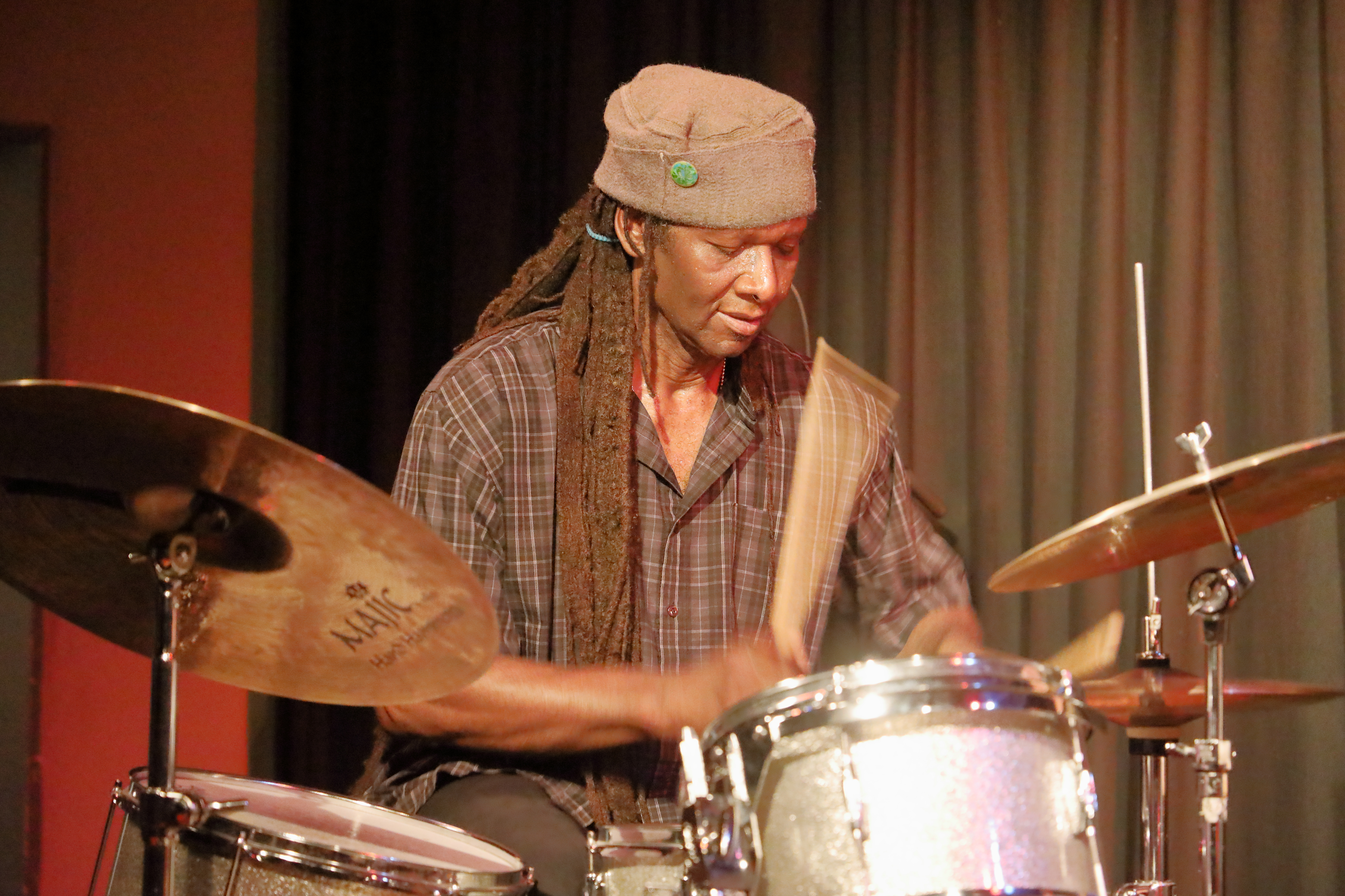 Drummer Hamid Drake from the US with William Parker (db) and John Dikeman (sax) at Club W71, Weikersheim.